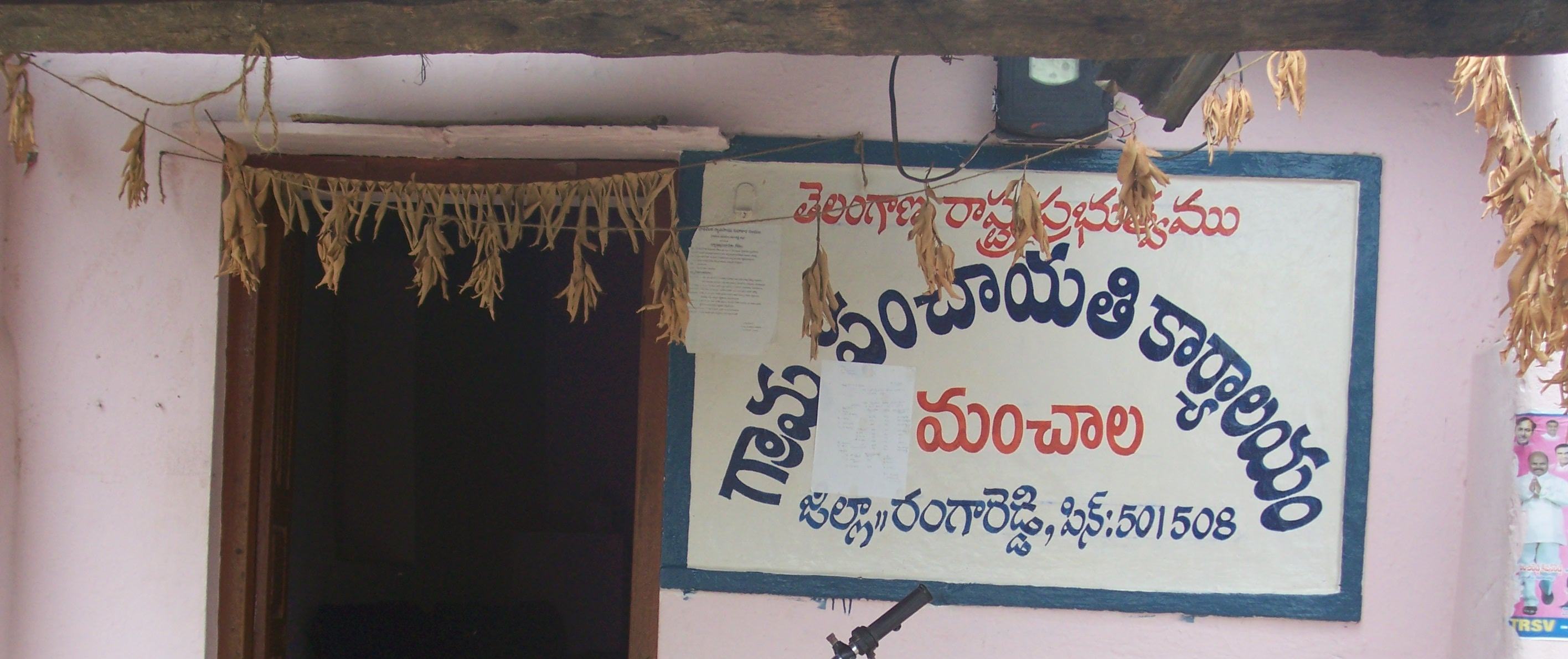 Graama panchayat office. mamcaal village